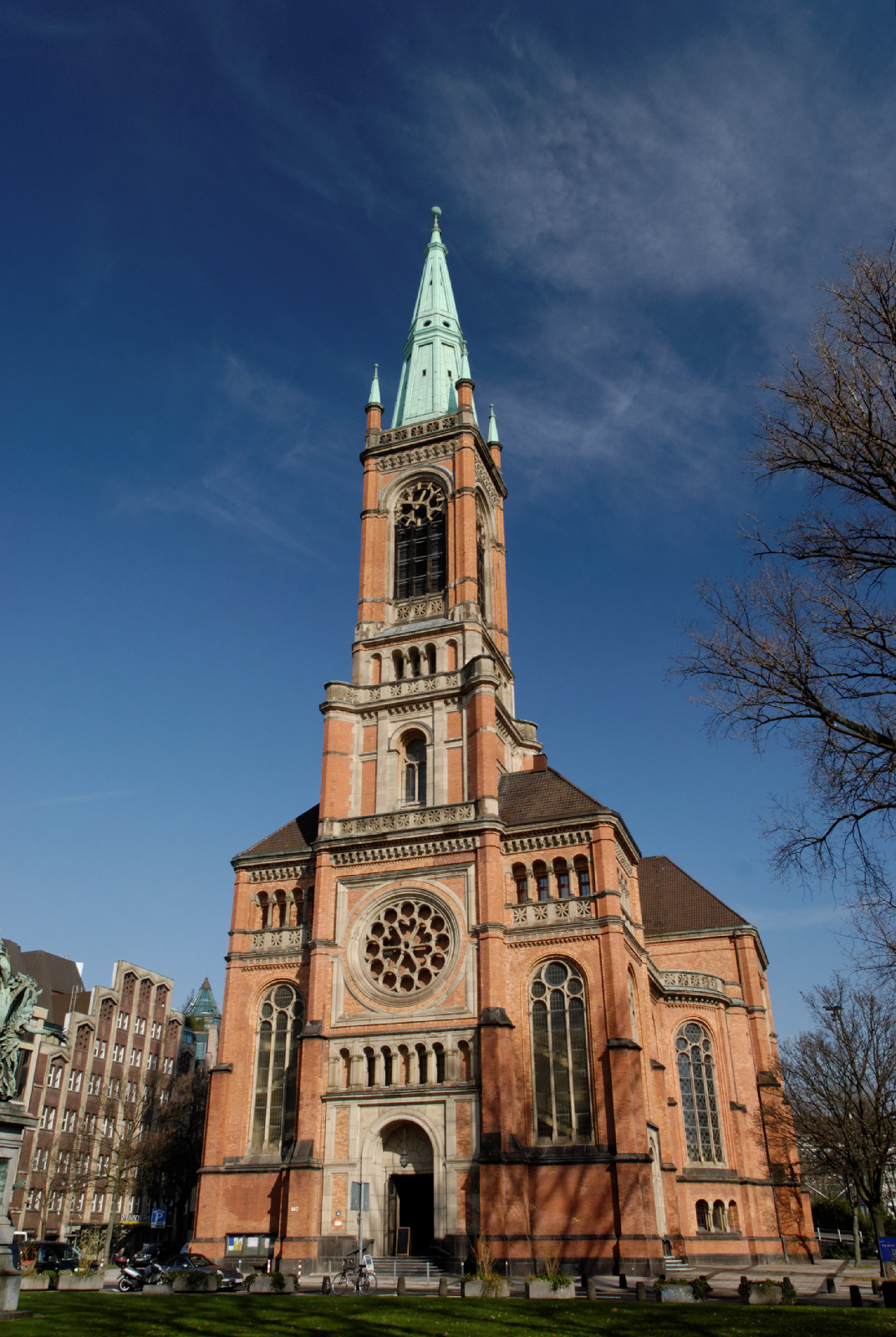 Johanneskirche, Martin-Luther-Platz 39 in Düsseldorf-Stadtmitte, Germany This is a photograph of an architectural monument.